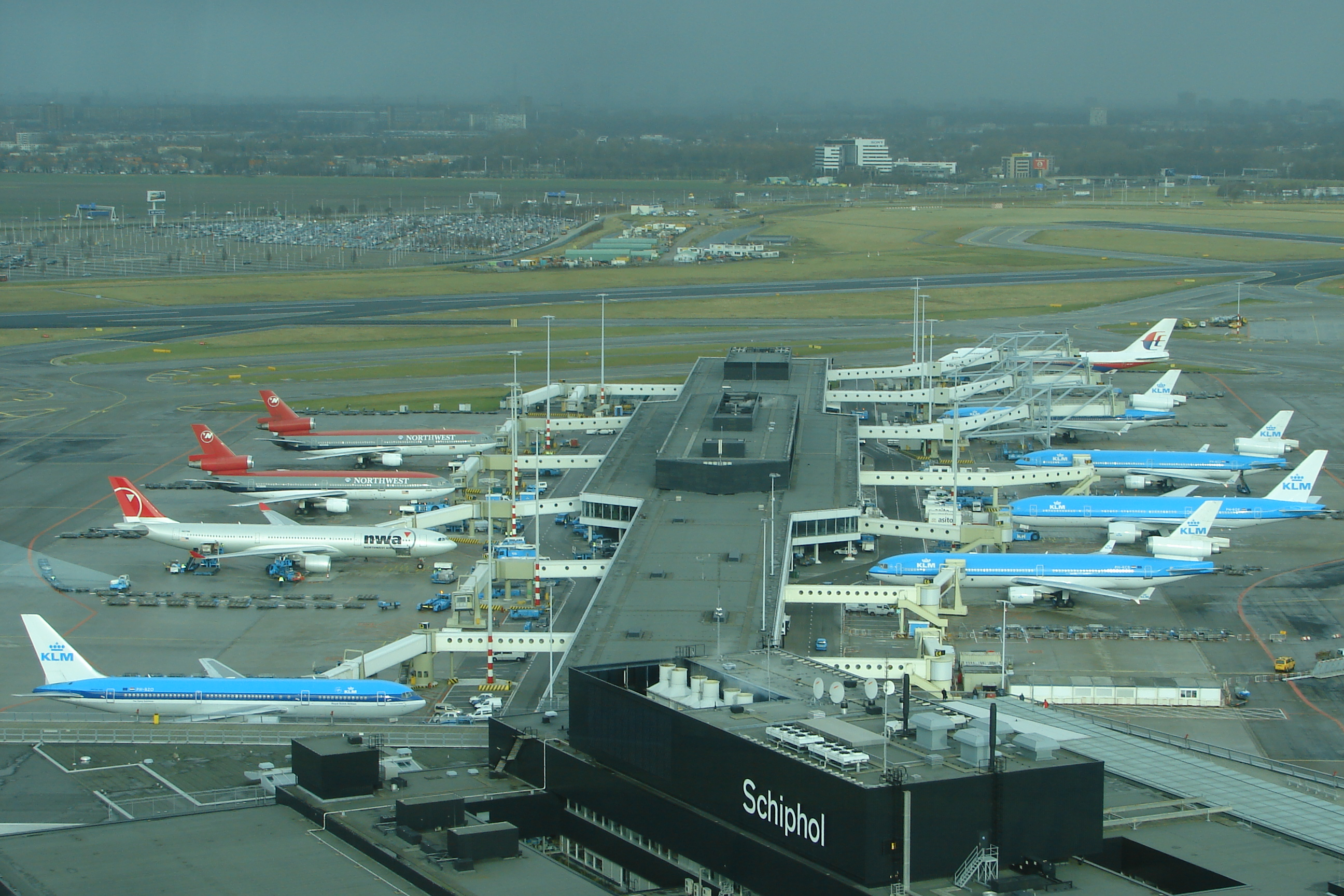 E-Terminal, Schiphol Airport. Picture taken from EHAM Tower.